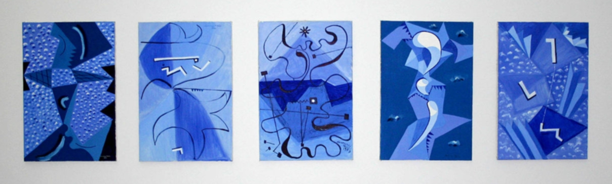 Tamás Lossonczy's exhibition (part).